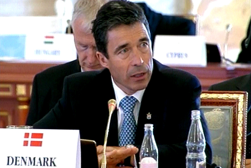 CONSTANTINE PALACE, STRELNA. Danish Prime Minister Anders Fogh Rasmussen at a plenary meeting of the Russia - EU Summit.